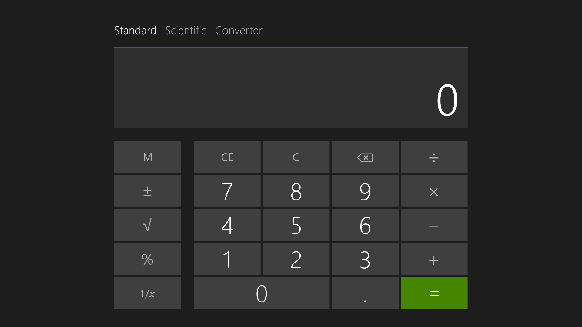 Screenshot of Calculator app running in Windows 8.1.